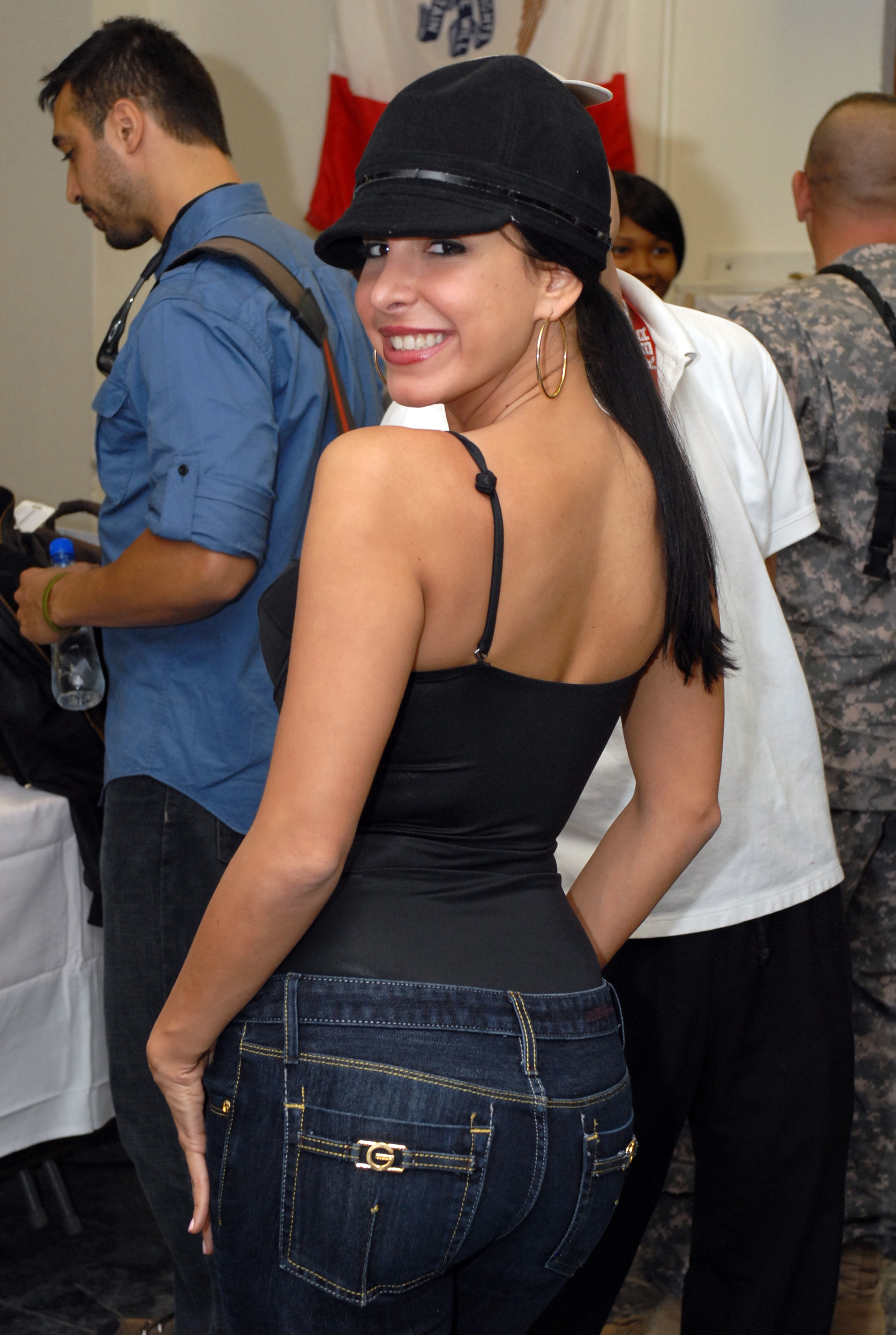 Singer and model Mayra Veronica meet and greet the troops in northeastern Afghanistan during a United Service Organization Tour. The Cuban singer takes time and pose for cameras and fans around the dinning facility.